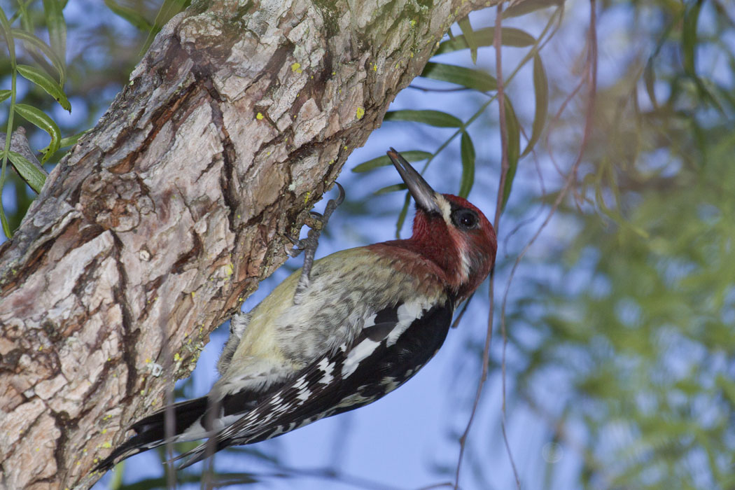 A Red-breasted Sapsucker in El Chorro Regional Park, San Luis Obispo County, California, USA.